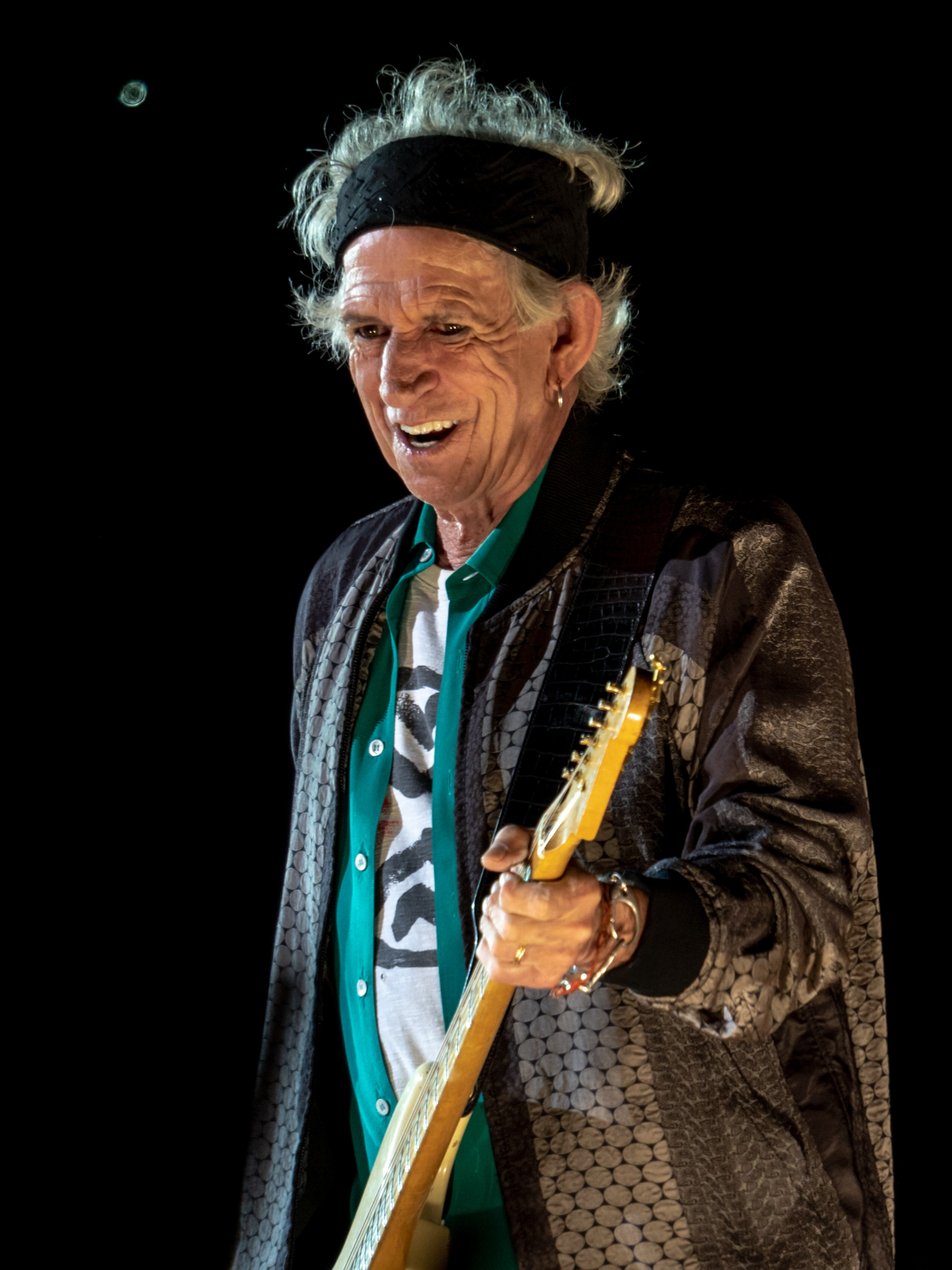 Keith Richards in London 2018